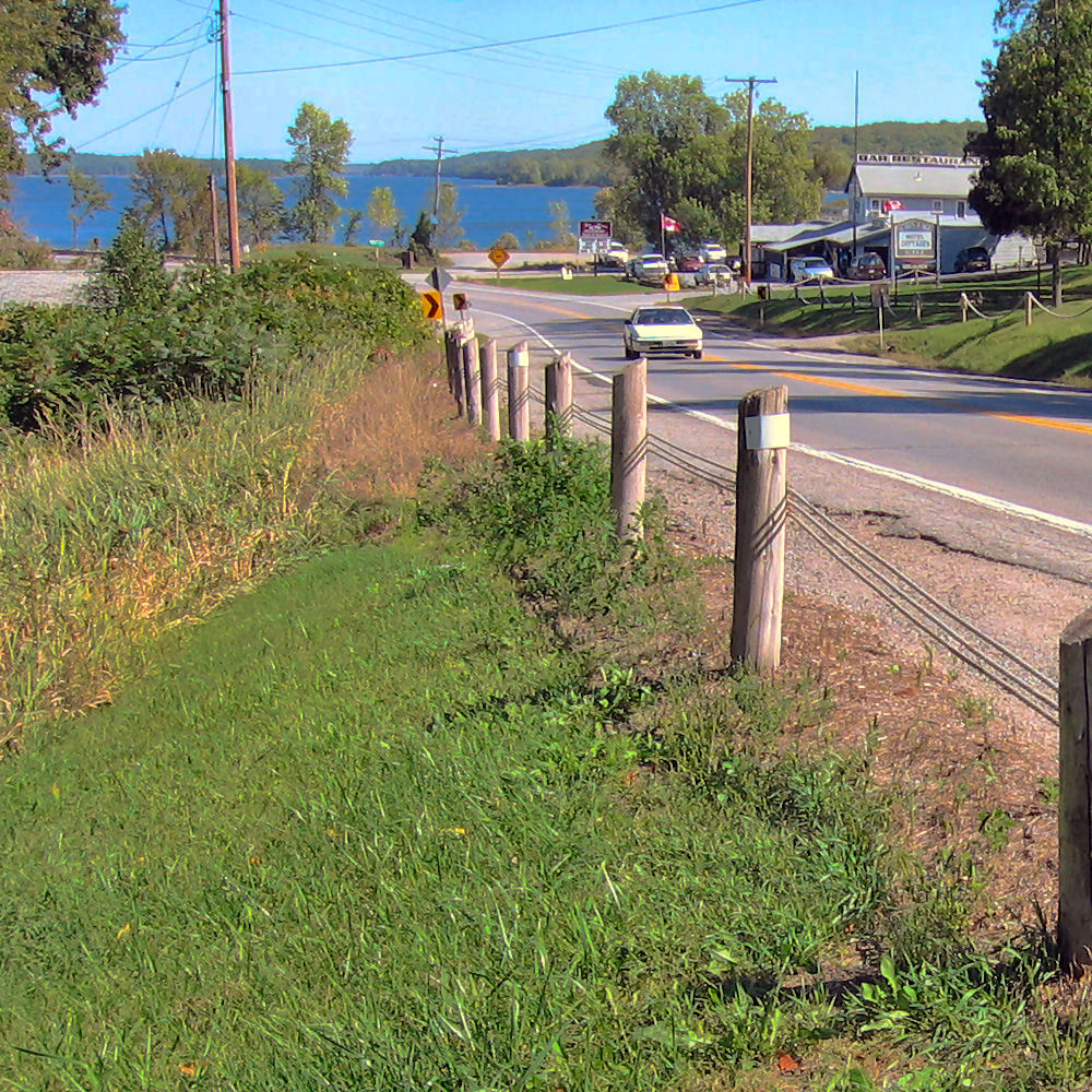 Photo of Moira Lake showing Highway 62 and former restaurant in the vicinity of former rail crossing and current snowmobile trail. Self made.